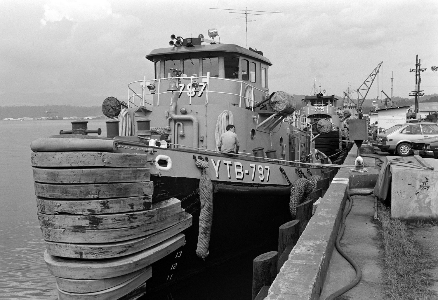 Tamaqua (YTB-797) moored at Naval Station Subic Bay, P.I., 26 October 1983. DVIC photo # DN-SN-85-06964 by PH1 S. Smith, a US Navy photo now in the collections of the Defense Visual Information Center.